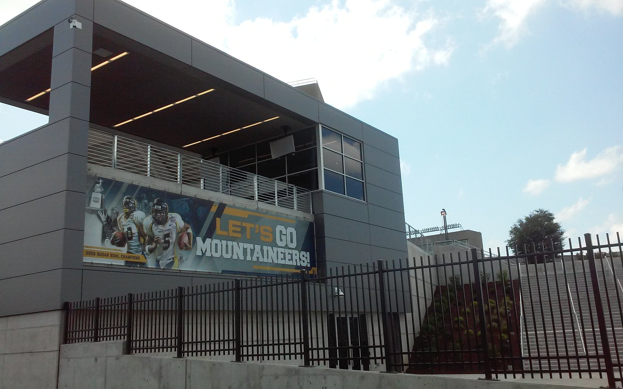 Northeast gate with new ADA accessible elevator and covered areas.